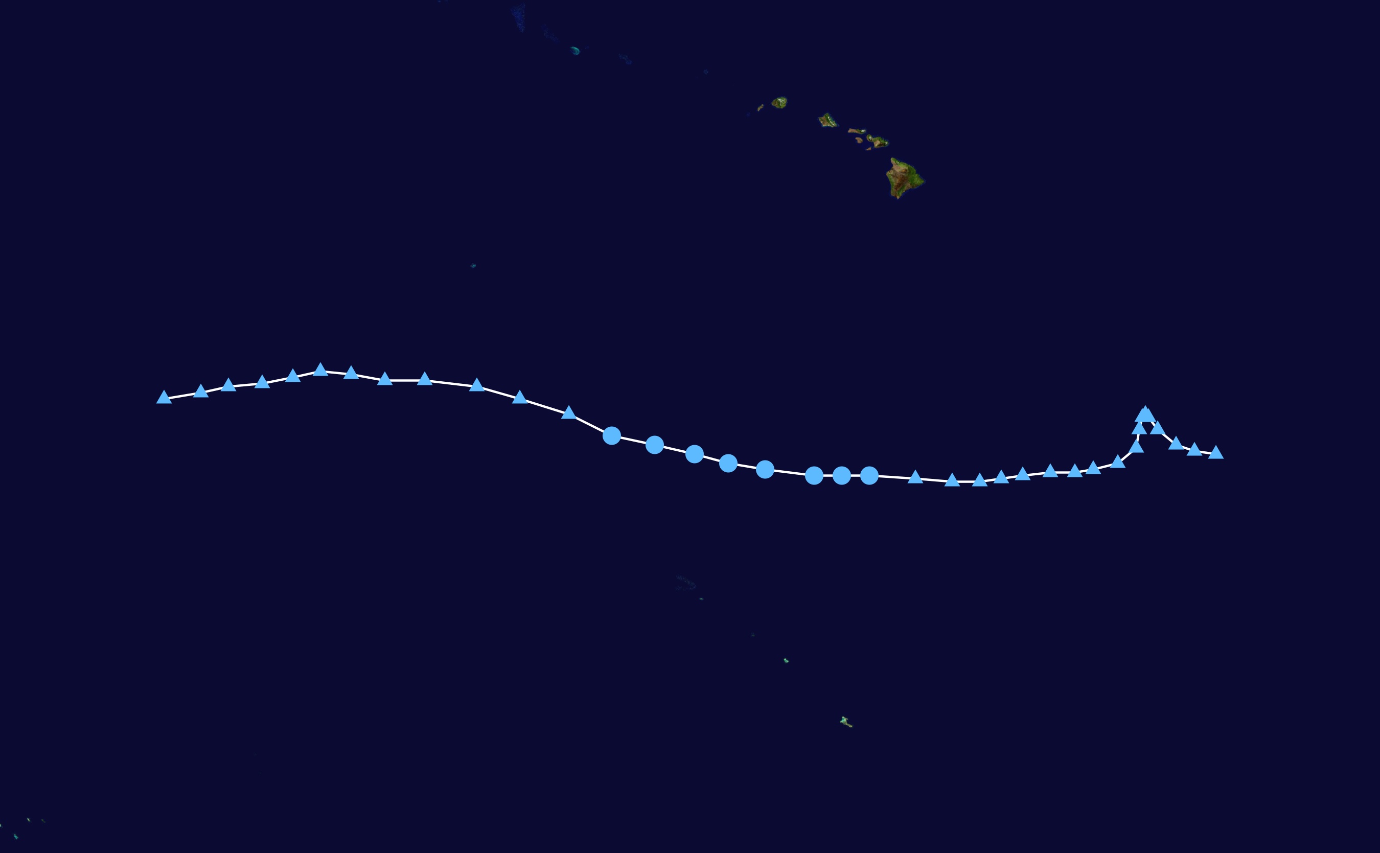 Track map of Tropical Depression Two-C of the 2006 Pacific hurricane season. The points show the location of the storm at 6-hour intervals. The colour represents the storm's maximum sustained wind speeds as classified in the Saffir–Simpson scale (see below), and the shape of the data points represent the nature of the storm, according to the legend below. Saffir–Simpson scale Tropical depression≤38 mph≤62 km/h Category 3111–129 mph178–208 km/h Tropical storm39–73 mph63–118 km/h Category 4130–156 mph209–251 km/h Category 174–95 mph119–153 km/h Category 5≥157 mph≥252 km/h Category 296–110 mph154–177 km/h Unknown Storm type Tropical cyclone Subtropical cyclone Extratropical cyclone / Remnant low / Tropical disturbance / Monsoon depression